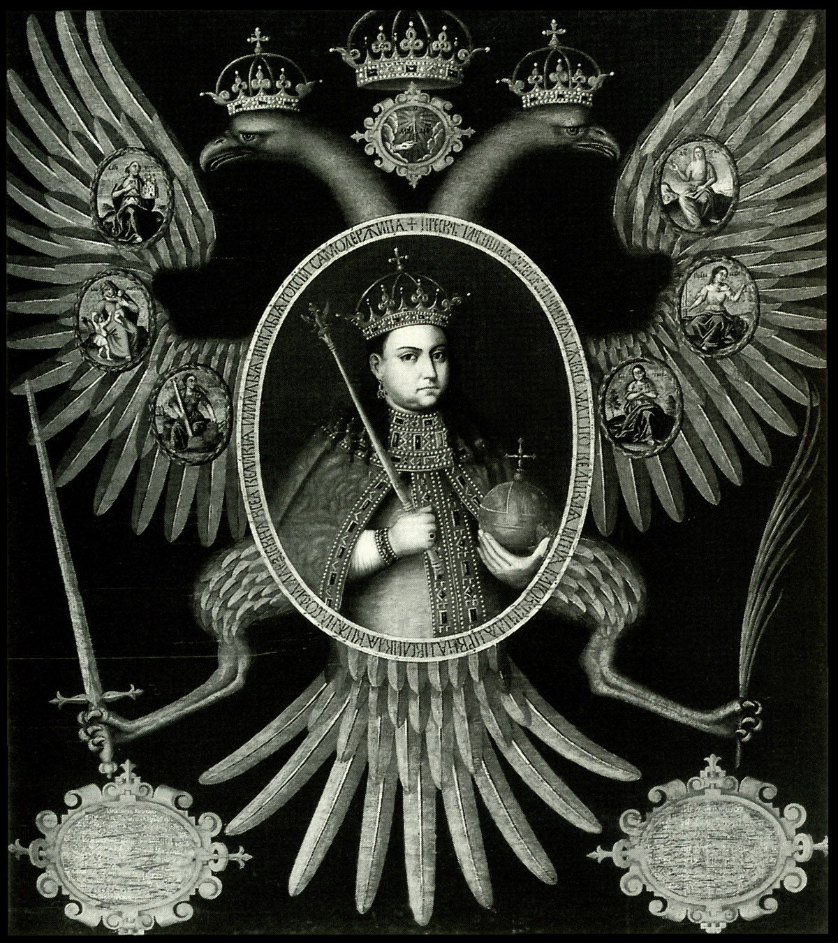 Princess-regent Sophia Alekseyevna of Russia